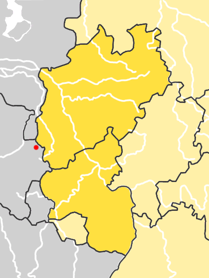 Map, Location of Moresnet (Belgium)